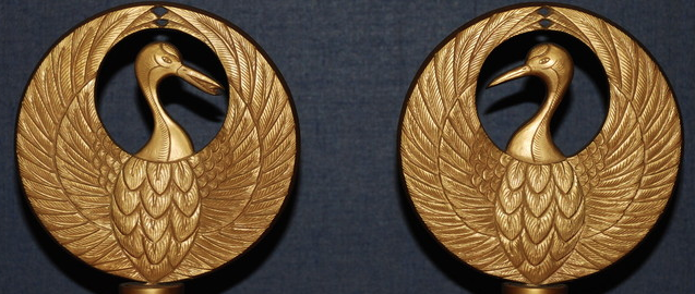 A pair of Tsurumaru, the official crest of Nichiren Shoshu